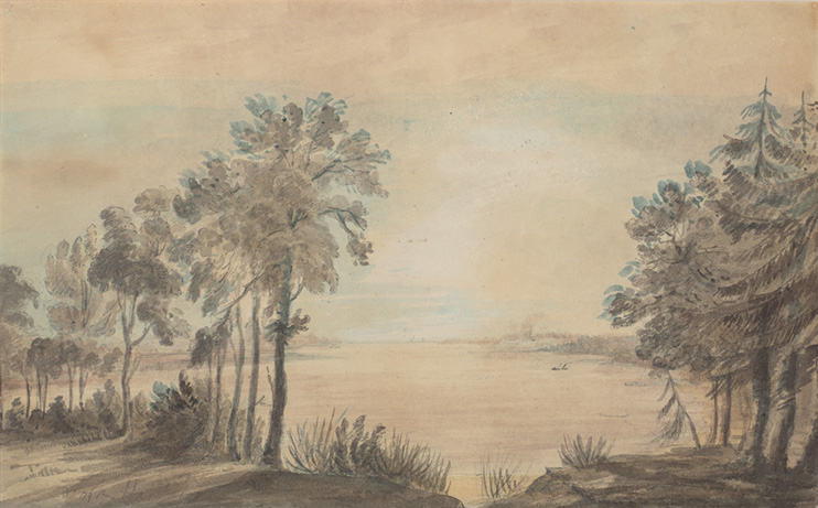 Elizabeth Simcoe accompanied her husband to Canada, and her diary and watercolours are an invaluable descriptive record of the first years of the Town of York. The picture of Toronto harbour in 1793, is a rare view of the site before colonial settlement. Simcoe decided on the site in May 1793 primarily because of its harbour. He returned in July 1793 with his wife and children, and set up residence in a tent.